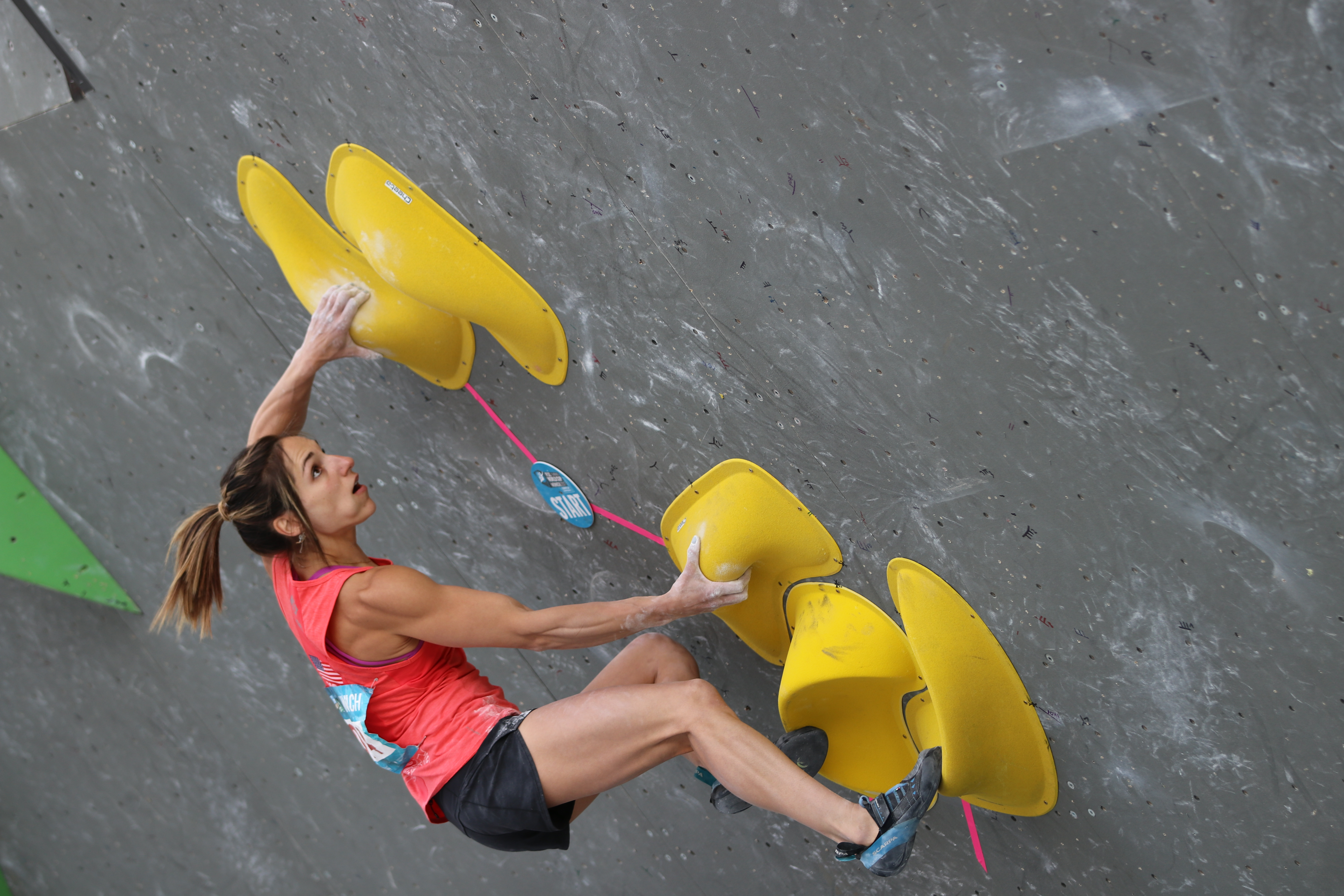 Alex Puccio, sports climber from the USA, at the Boulder Worldcup 2017 in Munich, Germany